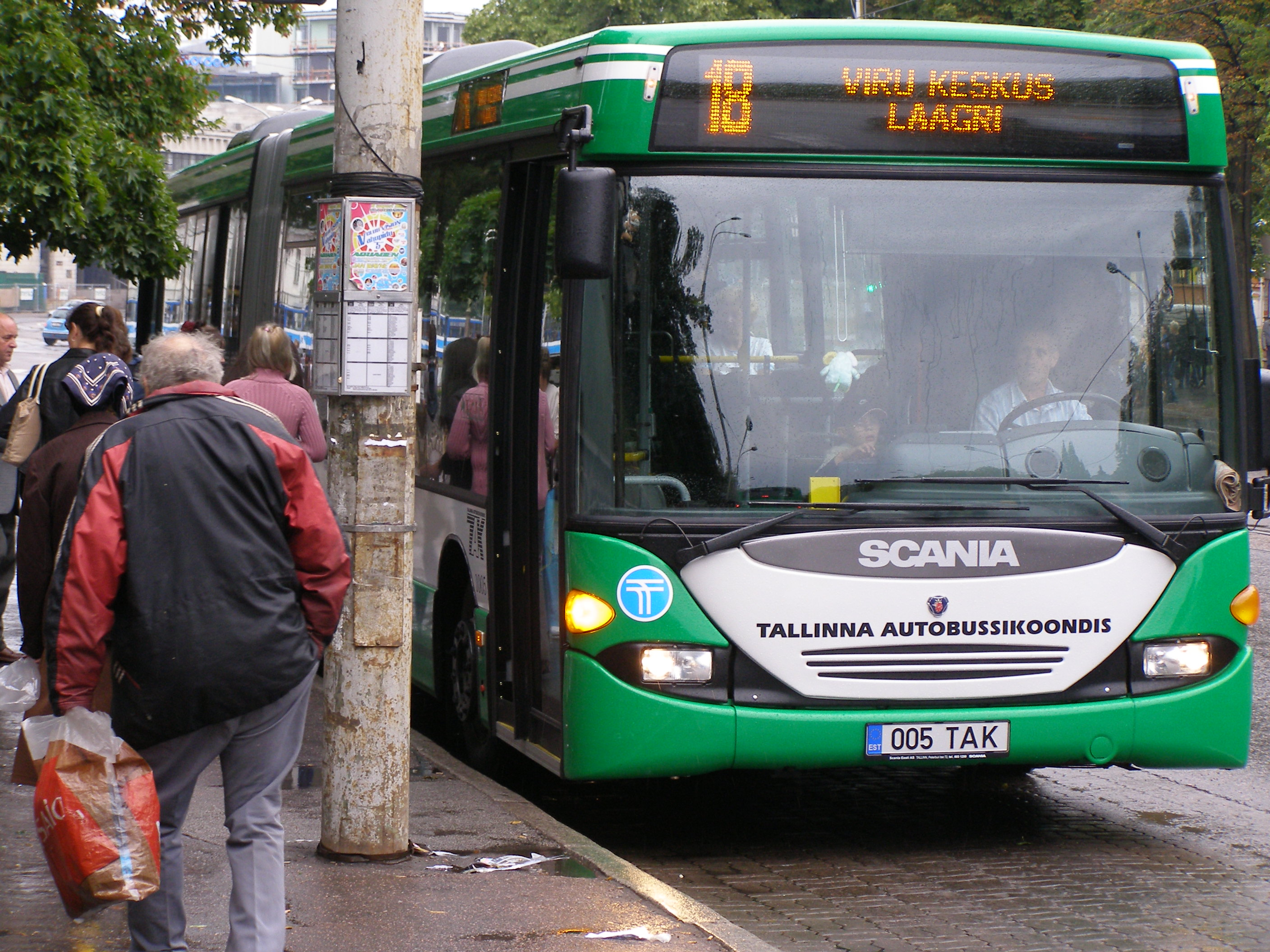 Bus no 18 at bus stop, Tallinn, Estonia. Scania CL94UA bus, year built 2006. TAK Tallinn company.